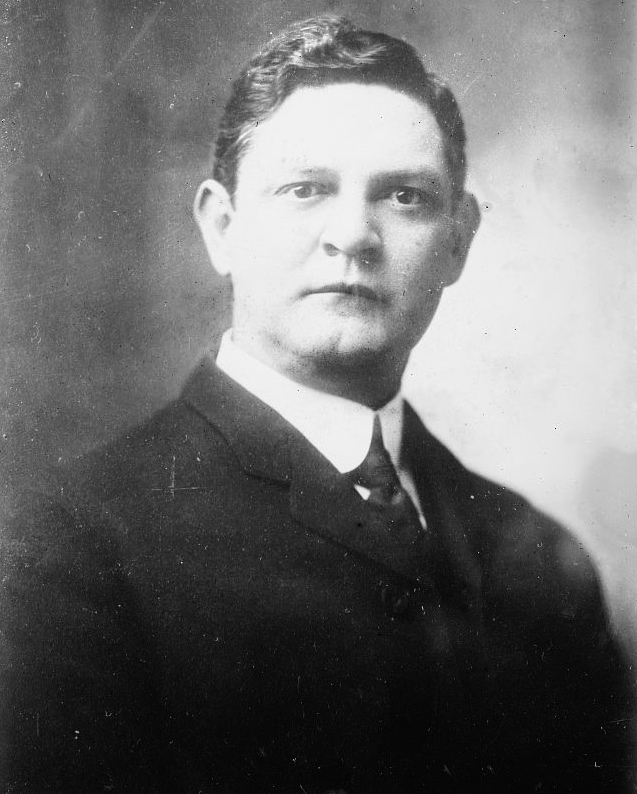 "J.Y. Sanders, Governor of Louisiana, portrait bust" Jared Y. Sanders, Sr.